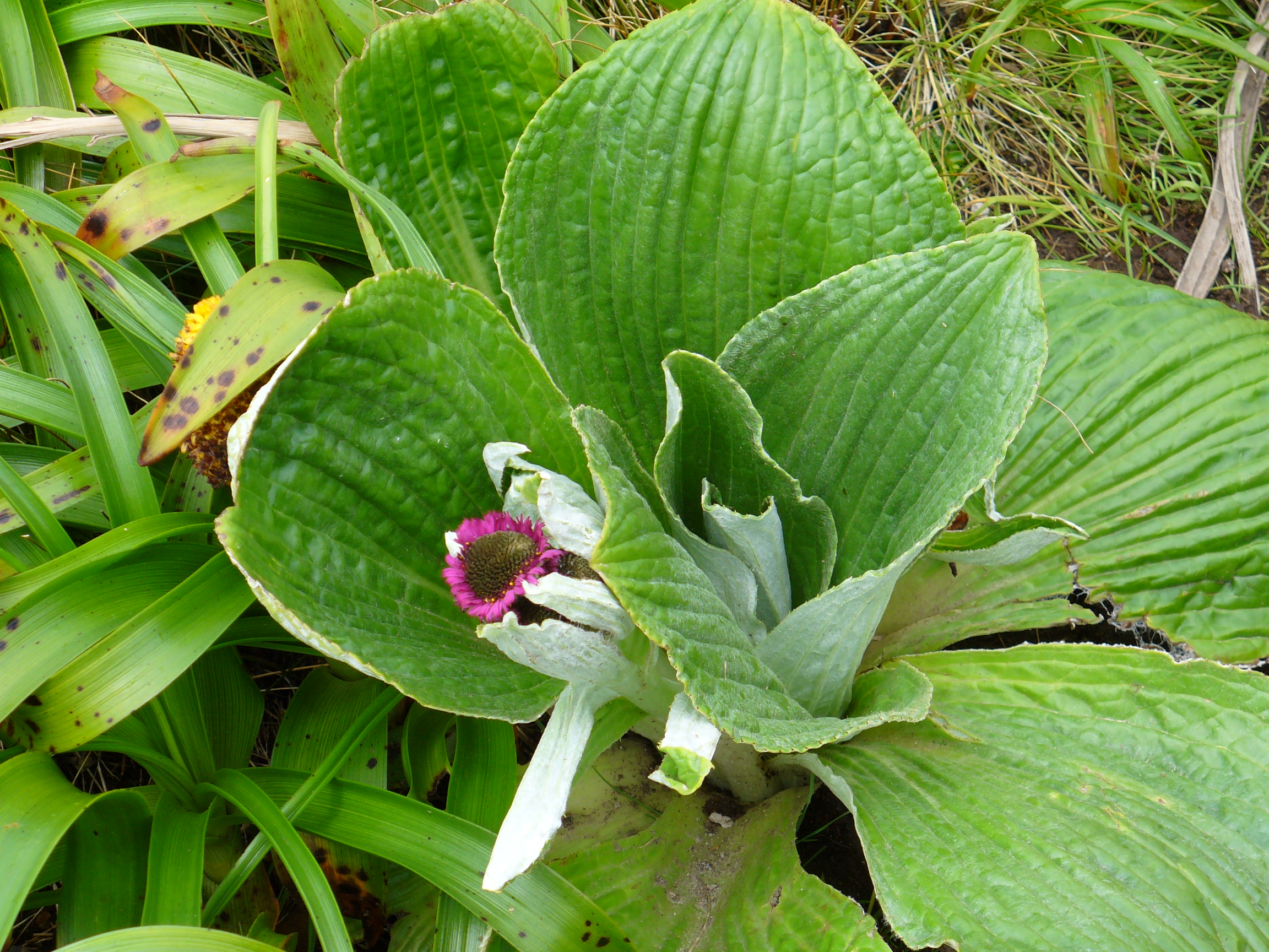 A Pleurophyllum hybrid plant, a naturally-occuring hybrid between Pleurophyllum hookeri and Pleurophyllum speciosum. *This is part of a megaherb community growing on Campbell Island, one of the sub-antarctic islands of New Zealand. The strap-like leaves to the left belong to Bulbinella rossi. This photograph was taken by and originally posted to flikr by Twiddleblatt, under the title 'Hybrid Pleurophyllum on Campbell Island'.